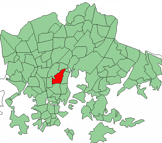 Map of Helsinki highlighting Kumpula